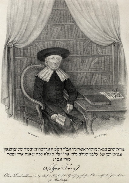 Chief Rabbi (Grand Rabbin) Ascher (Asher) LOEW, b. 1754 Minsk, d. 1837 Karlsruhe.